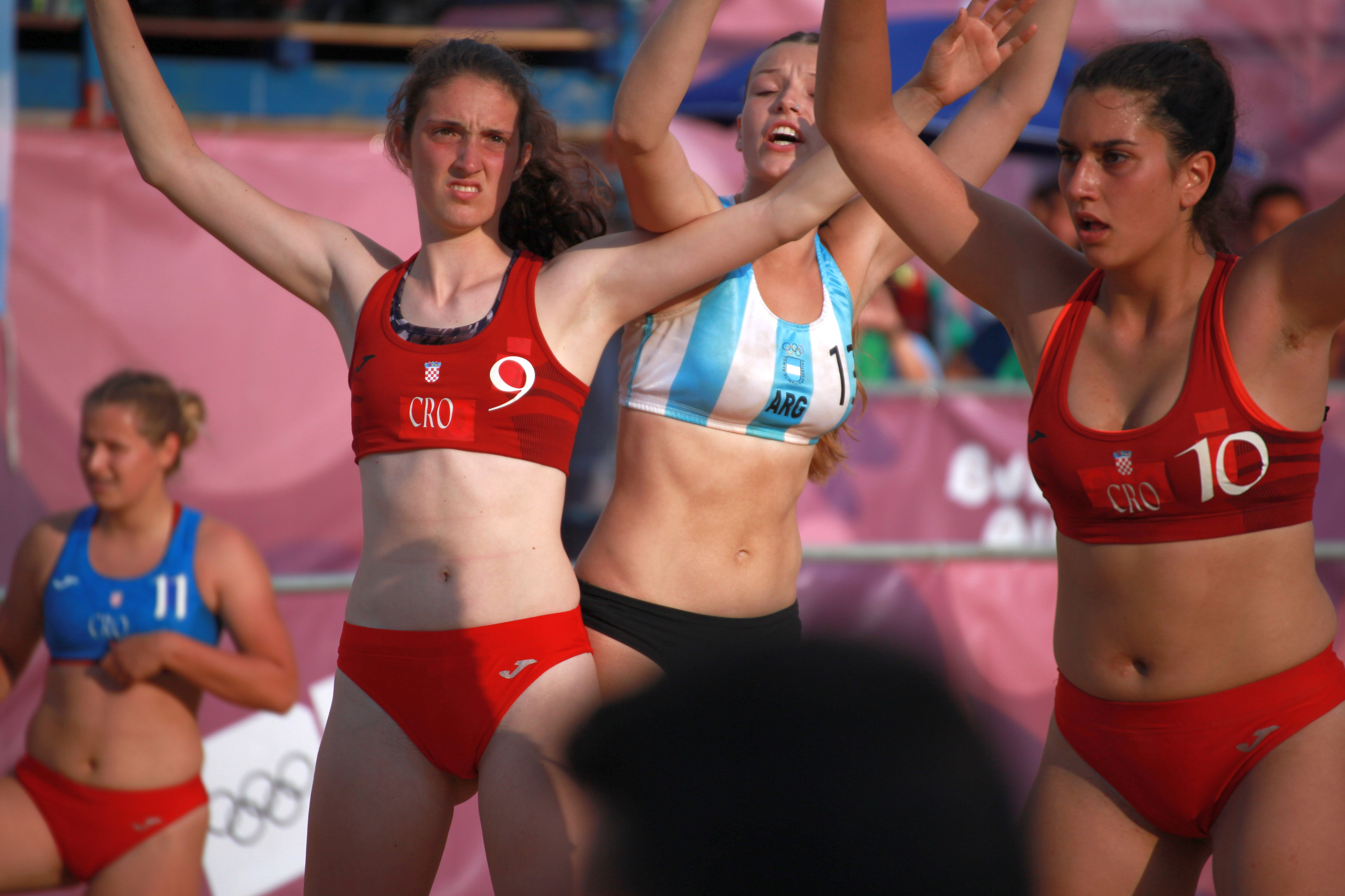 Beach handball at the 2018 Summer Youth Olympics in Buenos Aires at 13 October 2018 – Girls Gold Medal Match – Argentina-Croatia 2:0